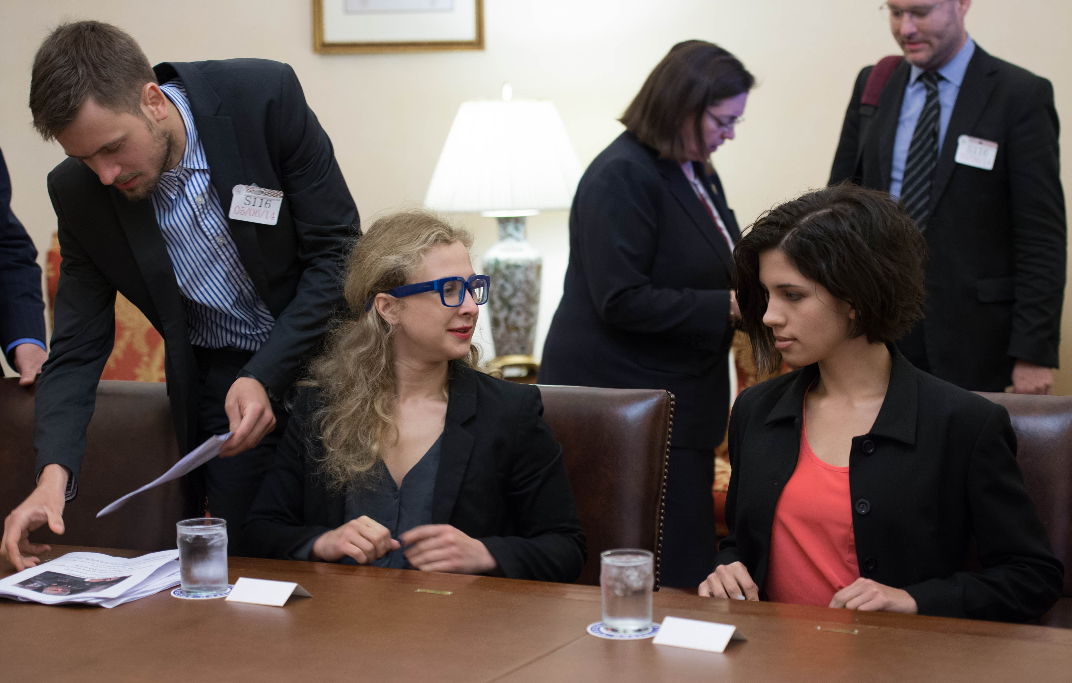 Senator Cardin and Rep. Cohen on Russian human rights, with Nadezhda Tolokonnikova and Maria Alyokhina, Members of the group Pussy Riot.